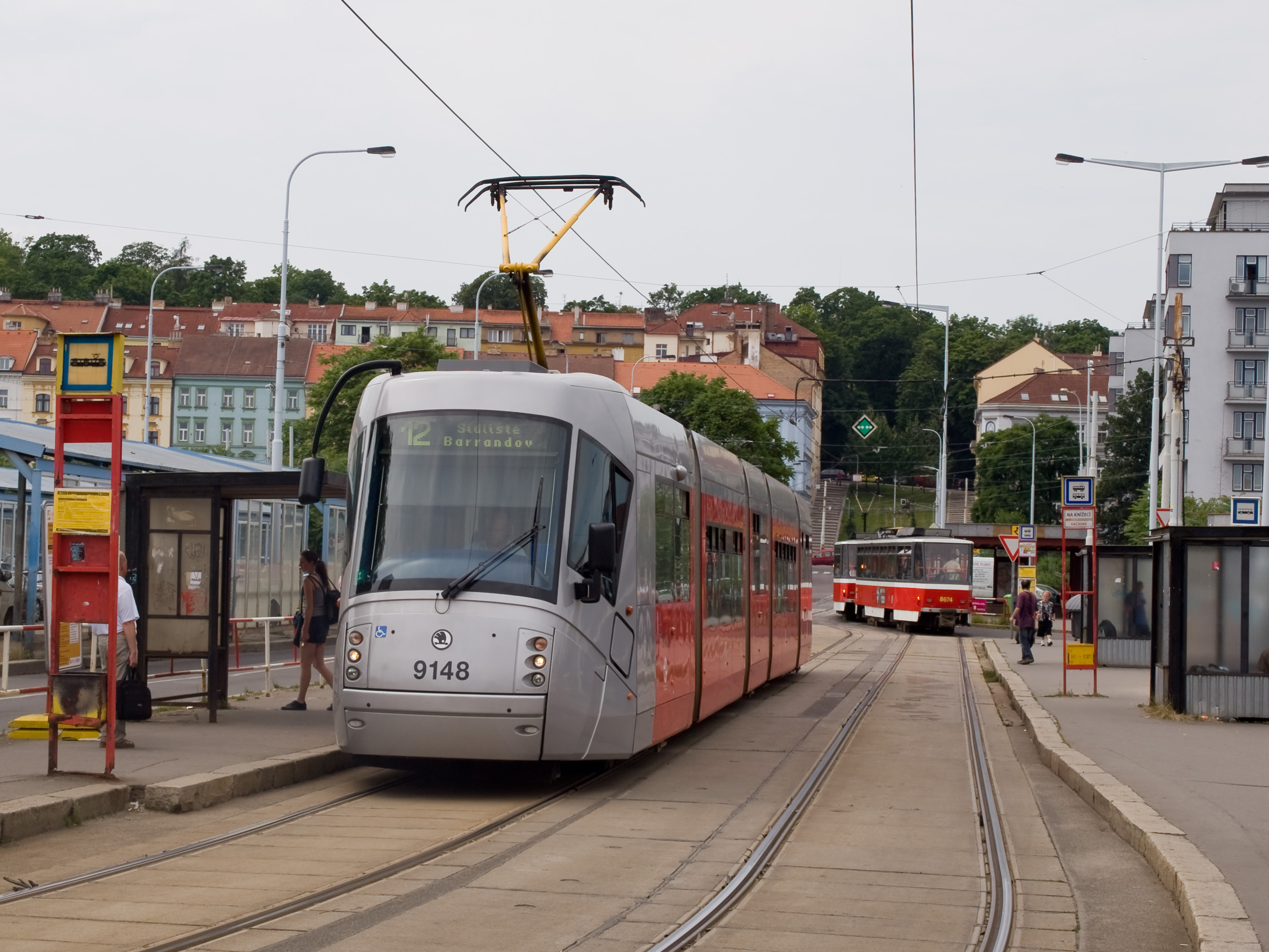 Škoda 14T at Na Knížecí tram stop, Prague